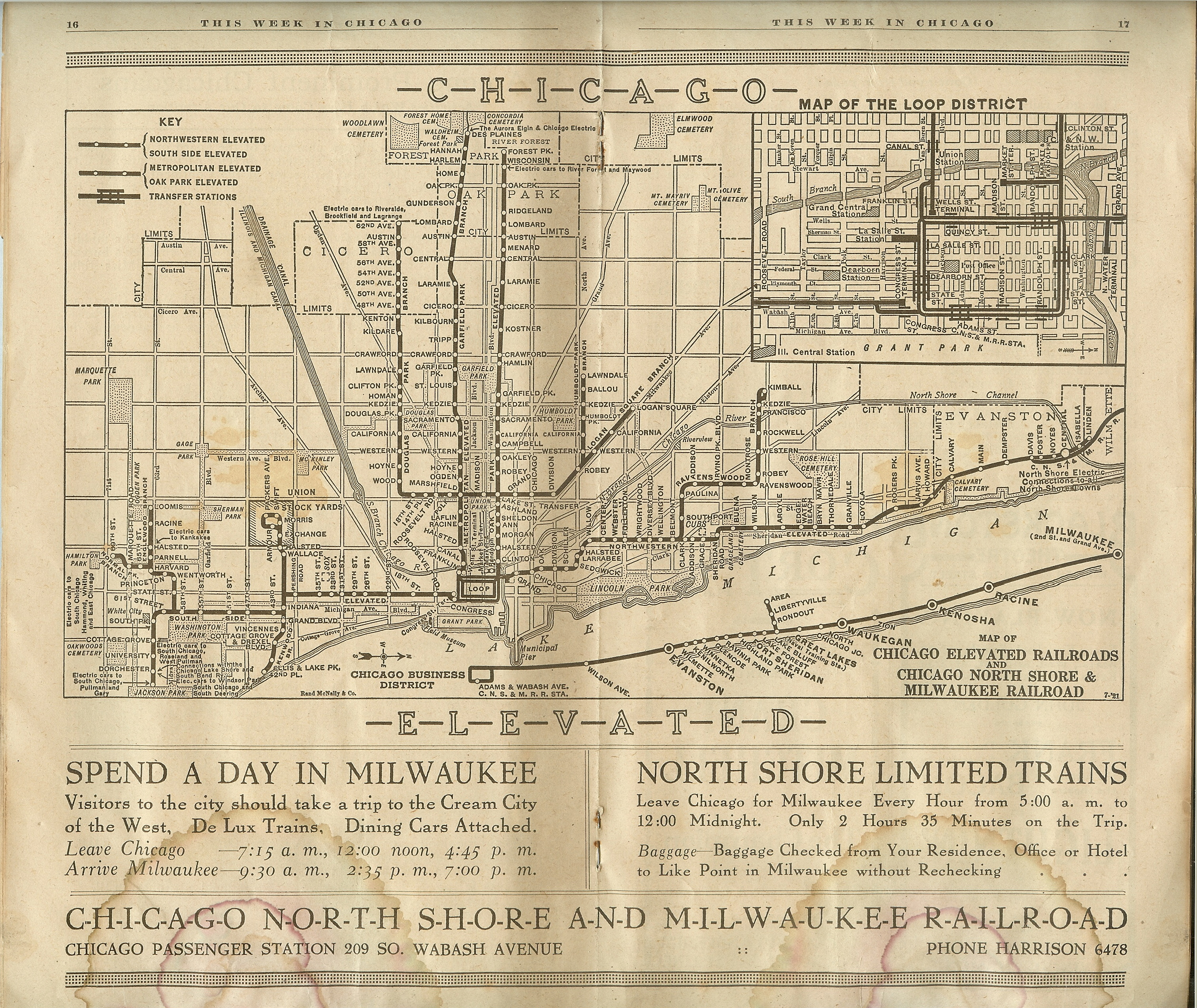 Map found in a Chicago guidebook called "This Week in Chicago" dated Sept. 4–Sept. 10, 1921—carries the notations "Rand McNally & Co." and "7-'21."